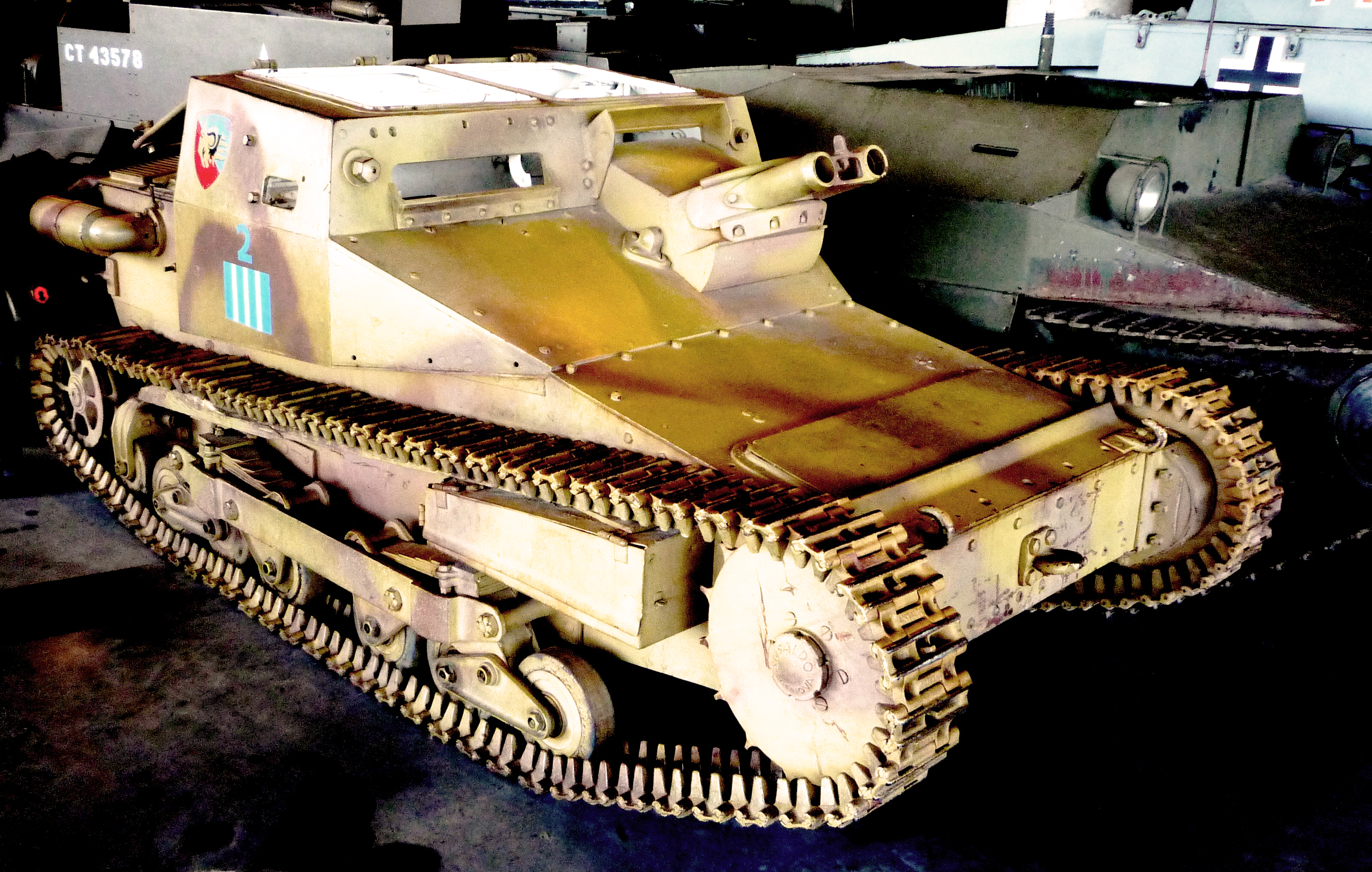 Italian tankette, used between 1931 and 1945 at the Canadian War Museum in Ottawa.